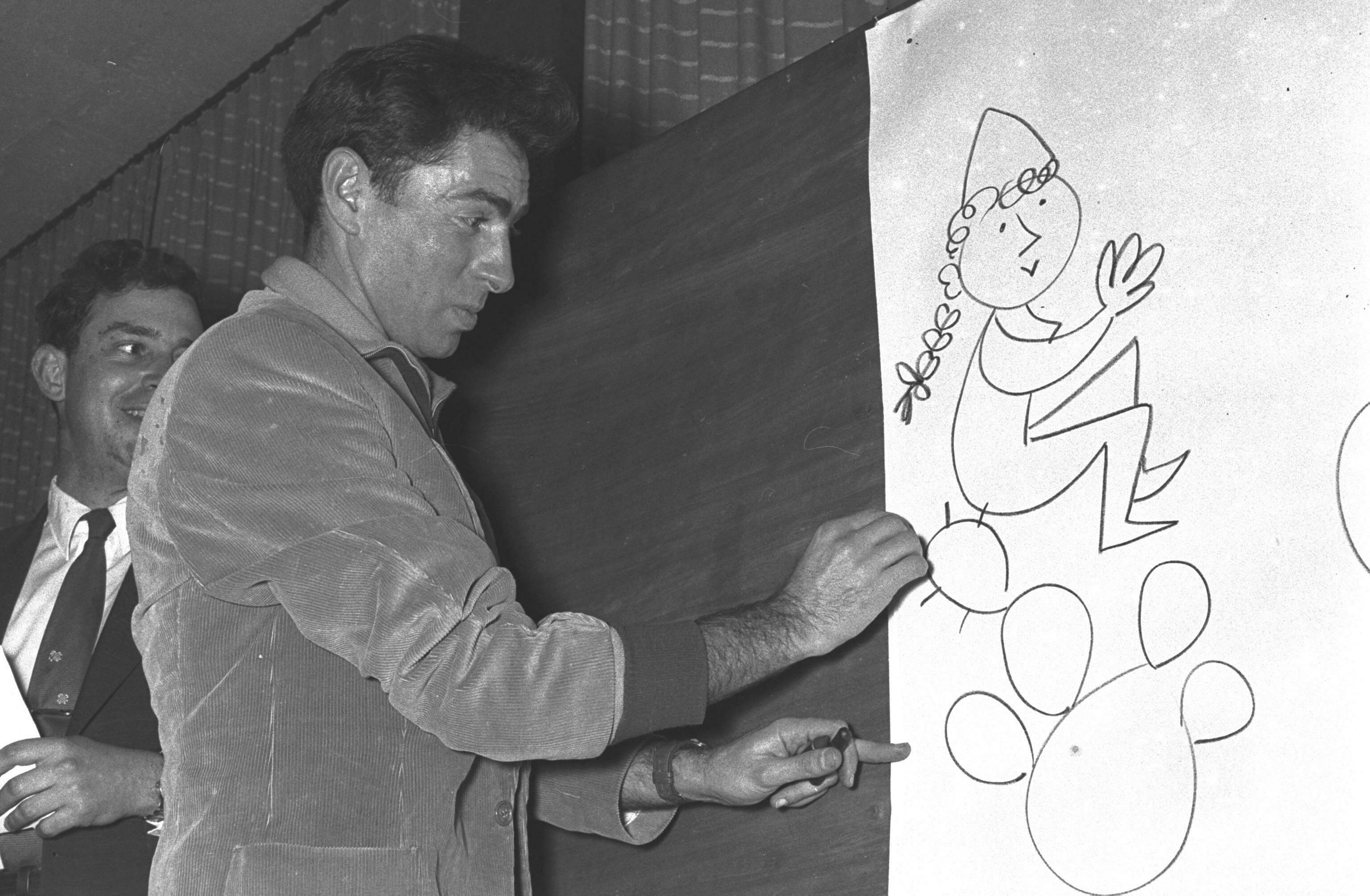 Israeli painter Jossi Stern (1923–1992) painting.